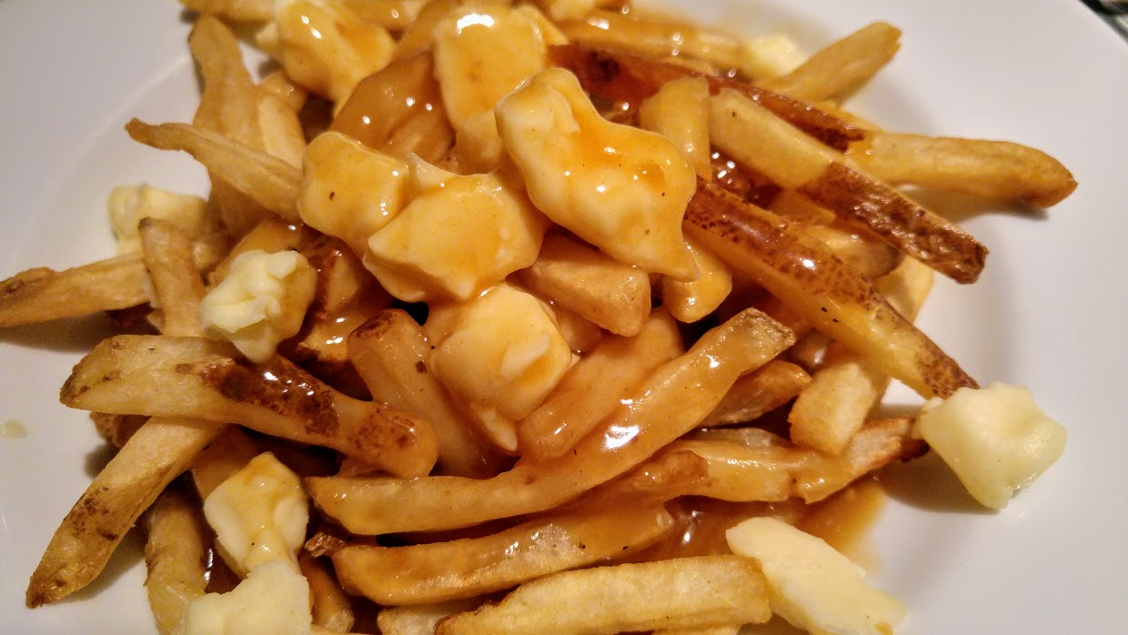 Food at WIkimanian 2017